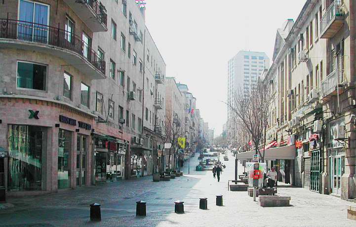 Ben Yehuda Street (Jerusalem)